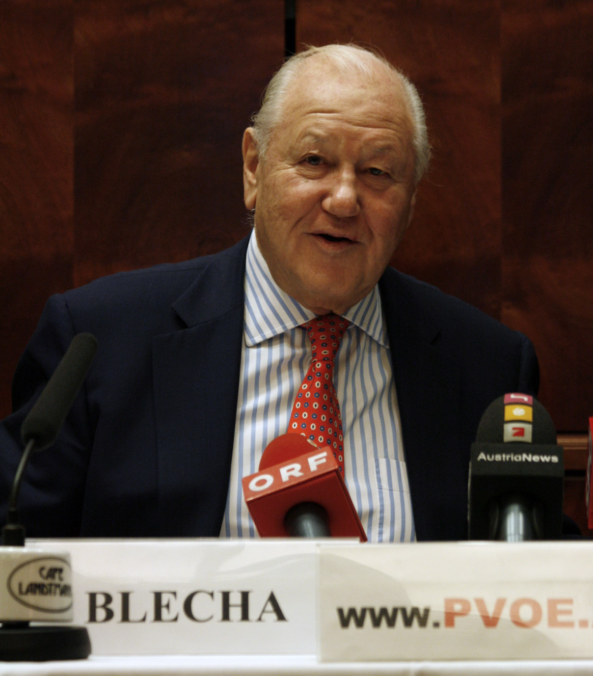 Austrian politician Karl Blecha at a press conference during the campaign for the legislative election 2008 (Café Landtmann, Vienna).